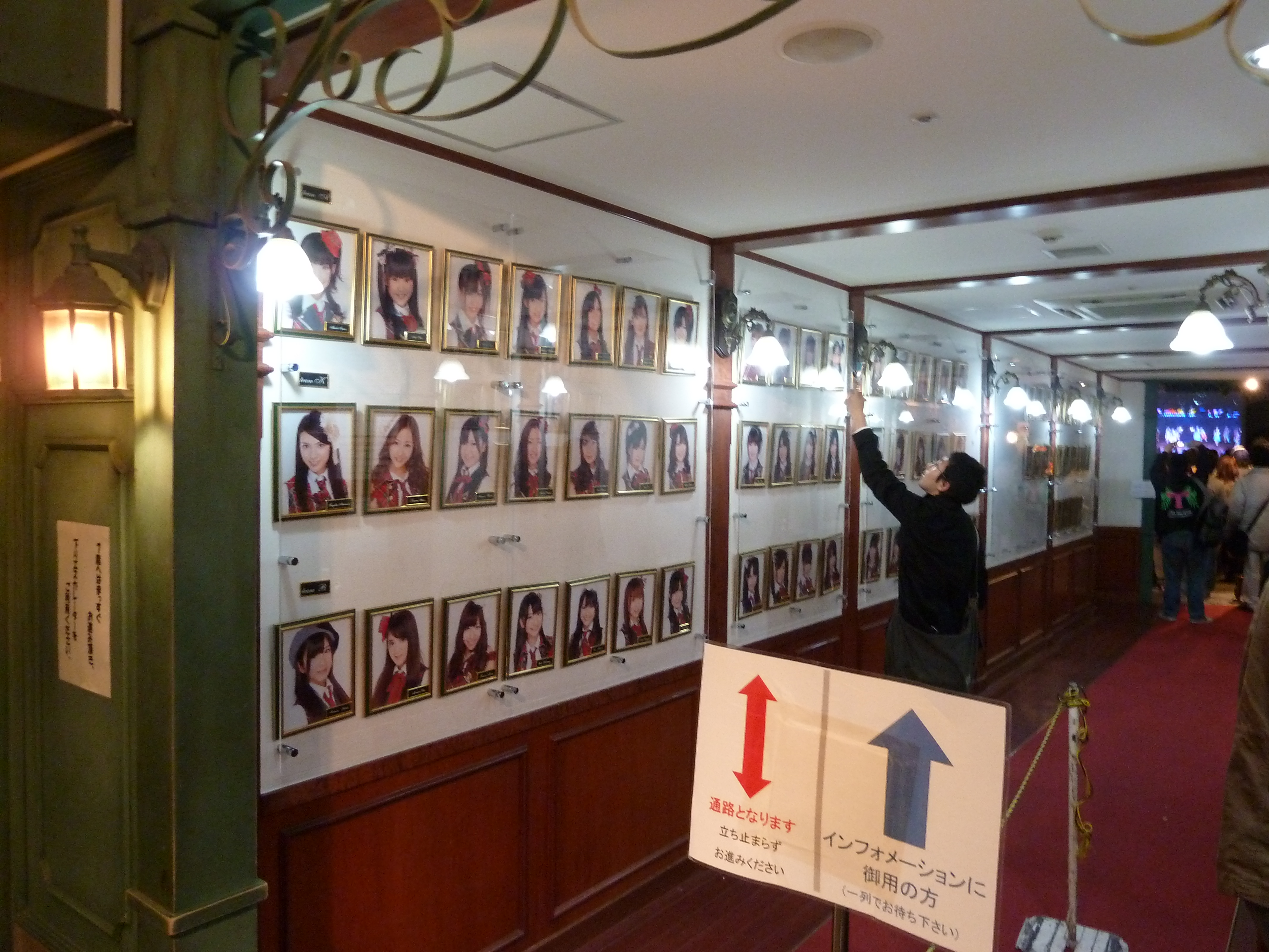 It's the AKB48 theater!